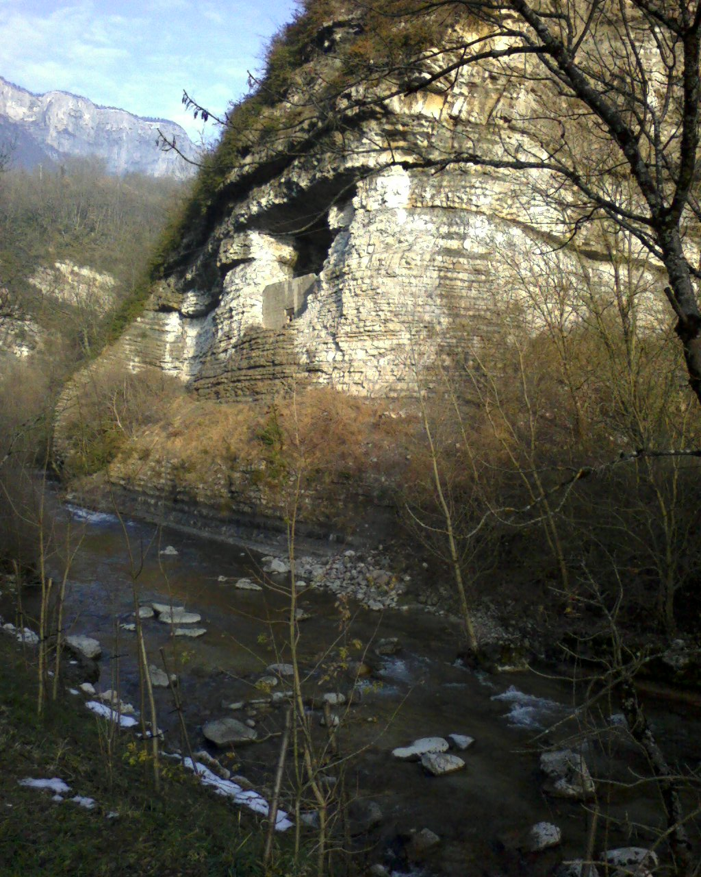 Leysse river leaving the mountains of the Natural Regional Park of Bauges and entering the commune of St-Alban Leysse near Chambéry, in Savoie, France.